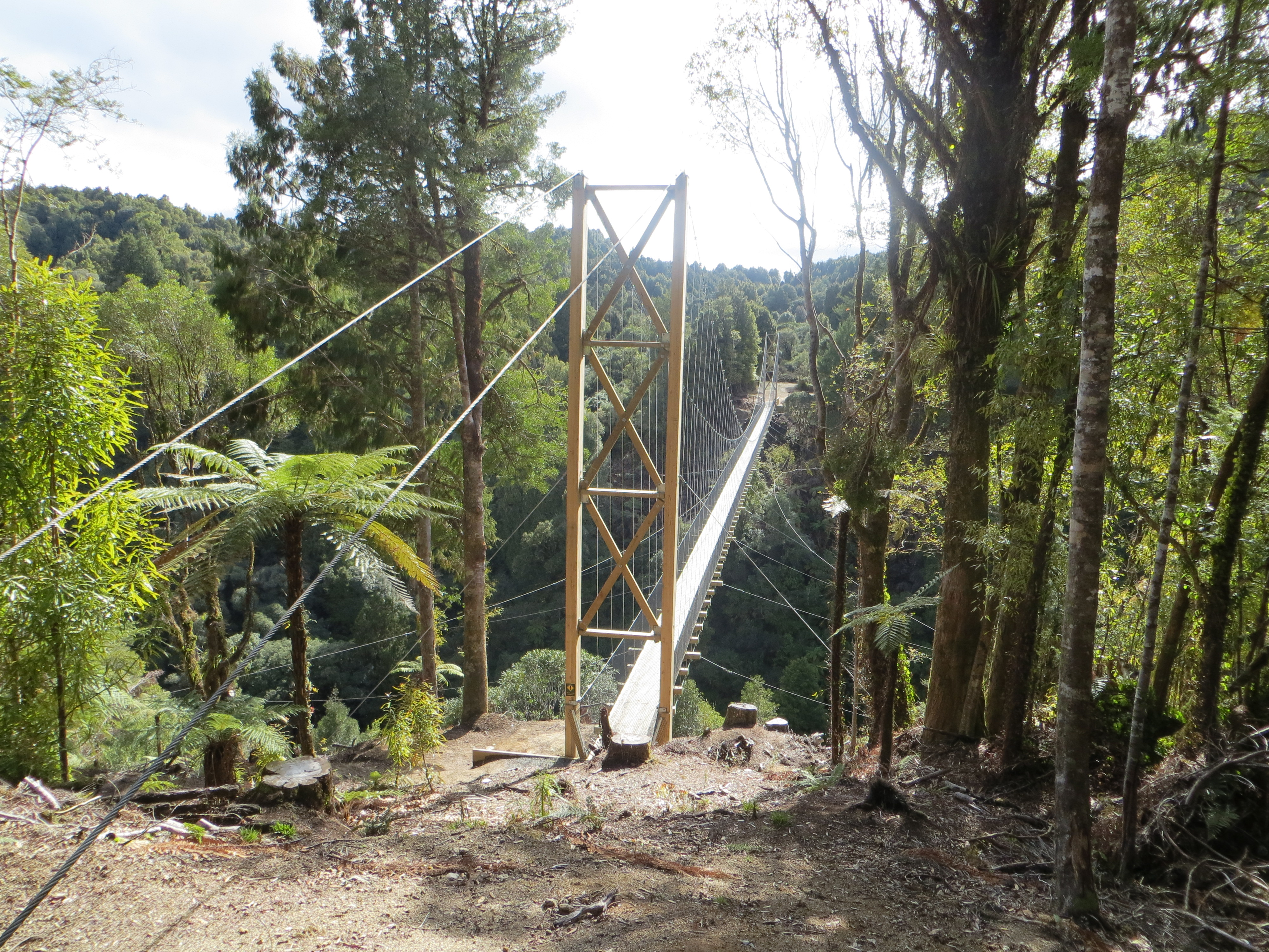 12.8m high Glulam Towers supporting 141m suspension bridge on Timber Trail